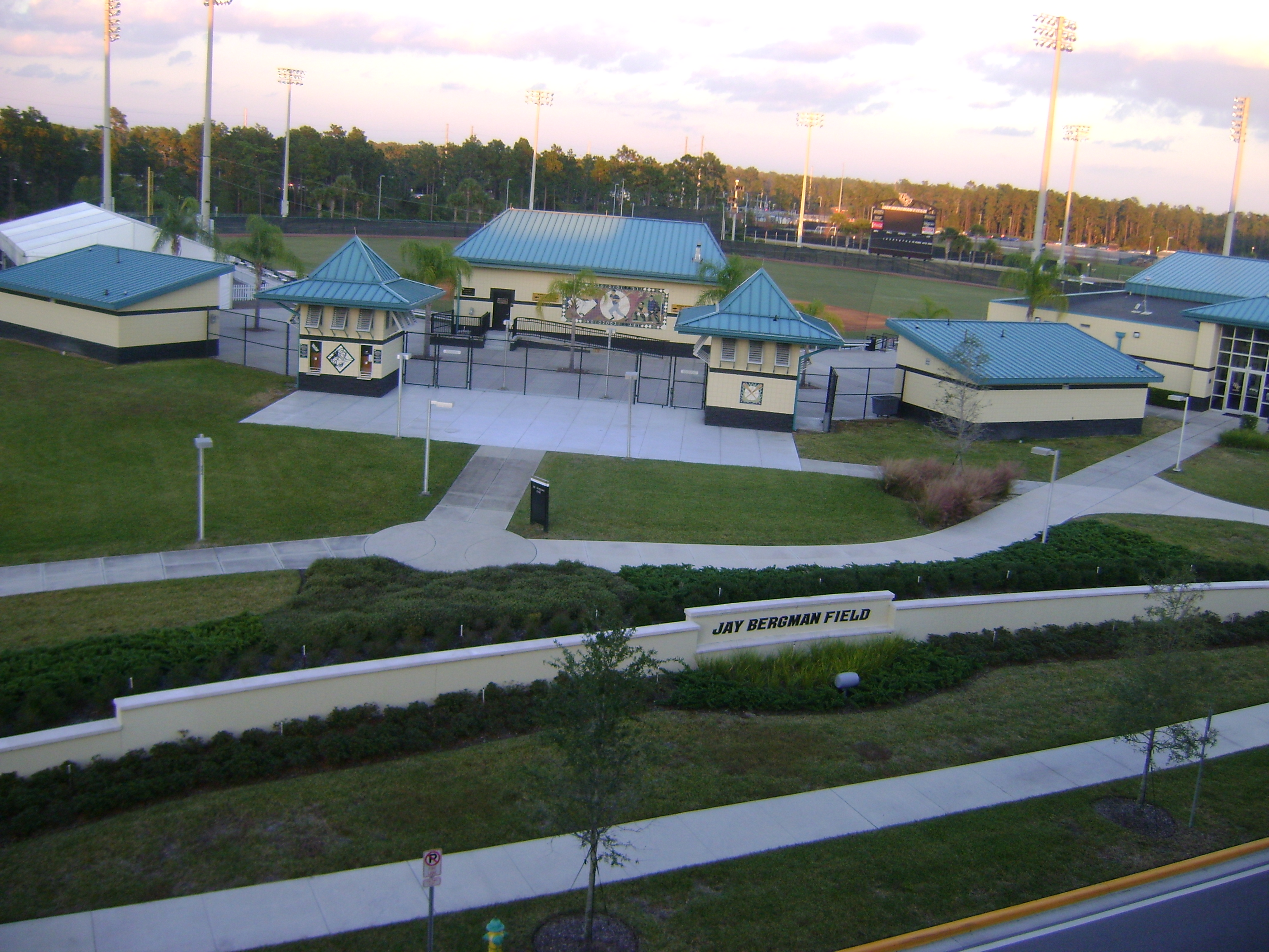 Jay Bergman Field, Knights Plaza, University of Central Florida (UCF)